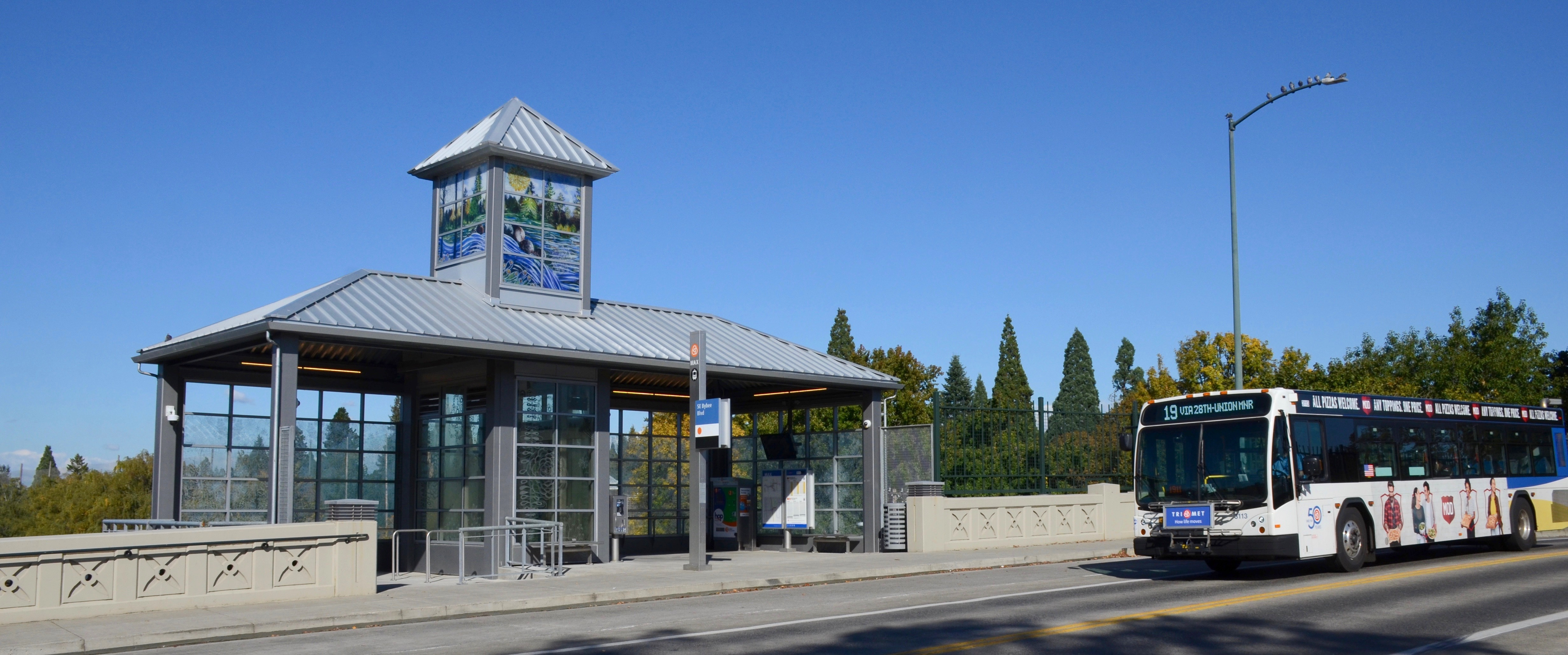 The northern entrance to the SE Bybee Blvd. station, on the MAX Orange Line, with a bus on line 19-Woodstock passing. Bus No. 3113 is a 2013 Gillig BRT.